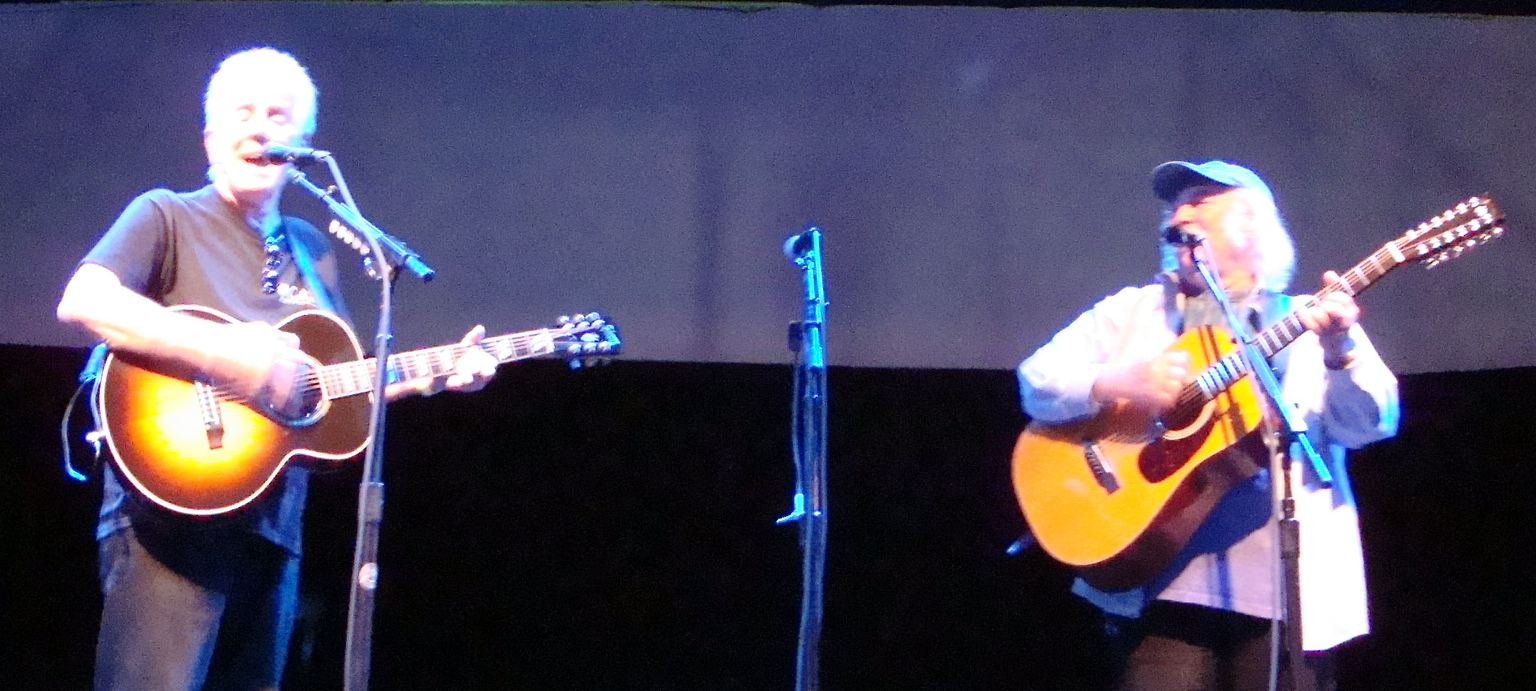 Graham Nash and David Crosby at Cain's Ballroom in Tulsa, Oklahoma on July 13, 2011. Taken during sound check. Opening concert of the Woody Guthrie Folk Festival. Kmzundel (talk) 19:42, 7 September 2011 (UTC)